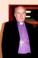 doctor Edmund Ratz, archibichop ELKRAS